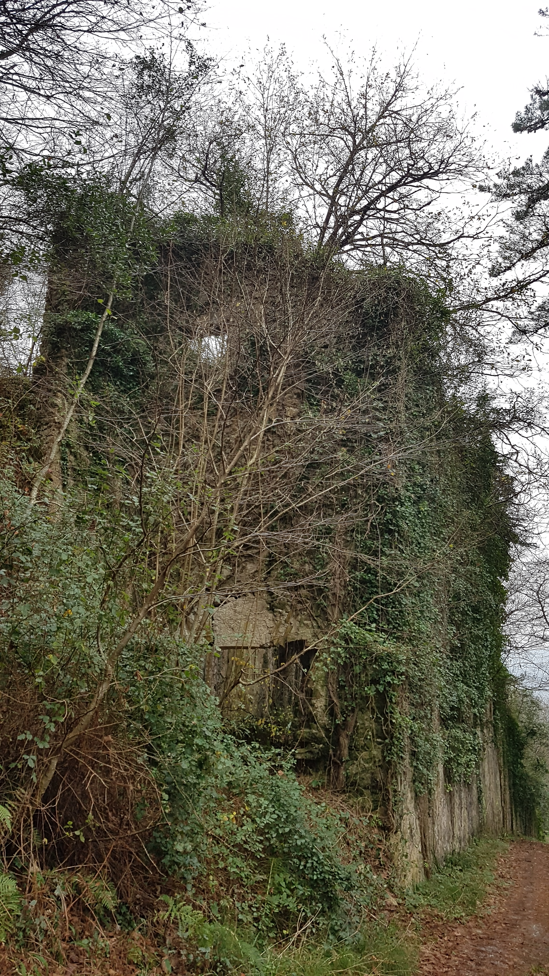 Ruins of a silk farm in Usurbil (Basque Country) where they cultivated oak silkworms in the end of the XIX century for a short time.